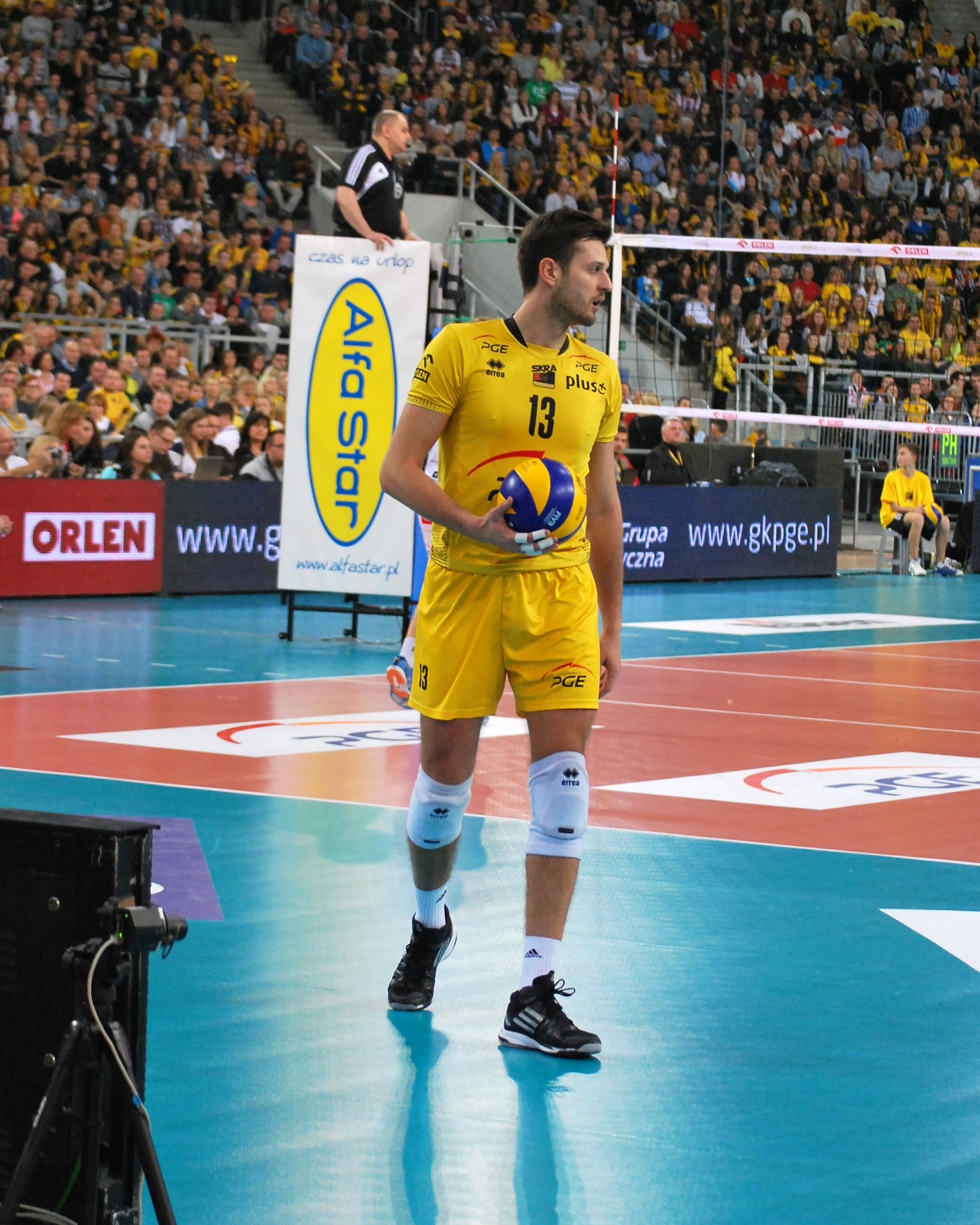 Michał Winiarski, volleyball player from Poland